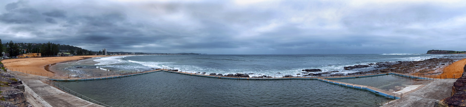 06/02/2012 A panorama of Collaroy.